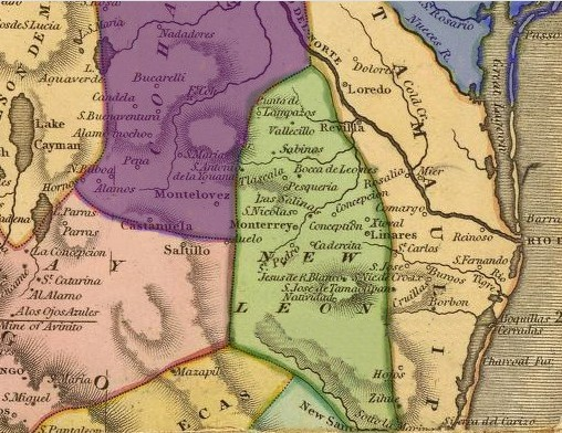 A cropped map of the New Kingdom of León, from a larger 1822 map of North America. Author: Henry S. Tanner, First publication: 05-27-1822. This is a constructed version from David Rumsey's collection. "This work is licensed under a Creative Commons License"